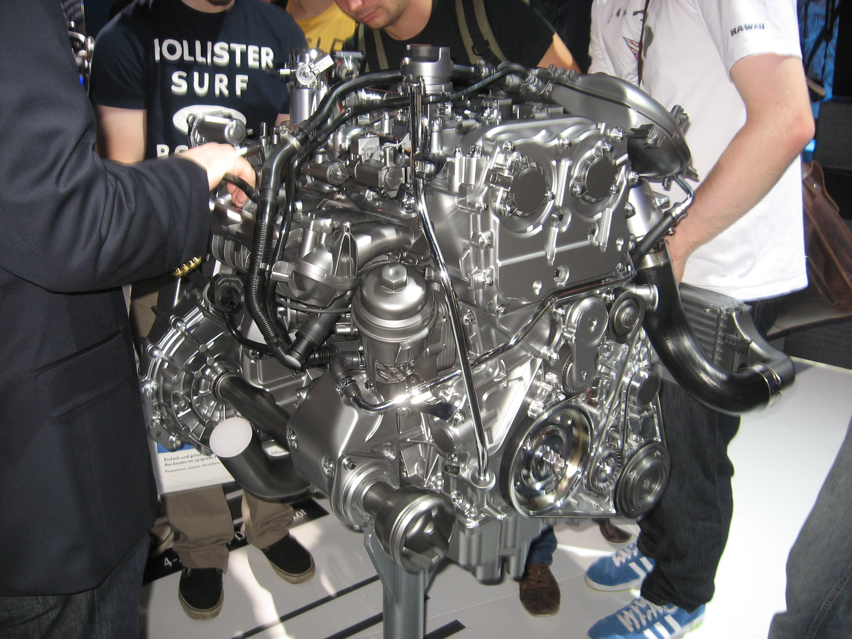 Subject: Mercedes-Benz M270DE16LA engine, to be mounted in the W246 model Date:September 17th, 2011 Event: IAA 2011 Place/Country: Frankfurt am Main, Germany I release all rights in the public domain.